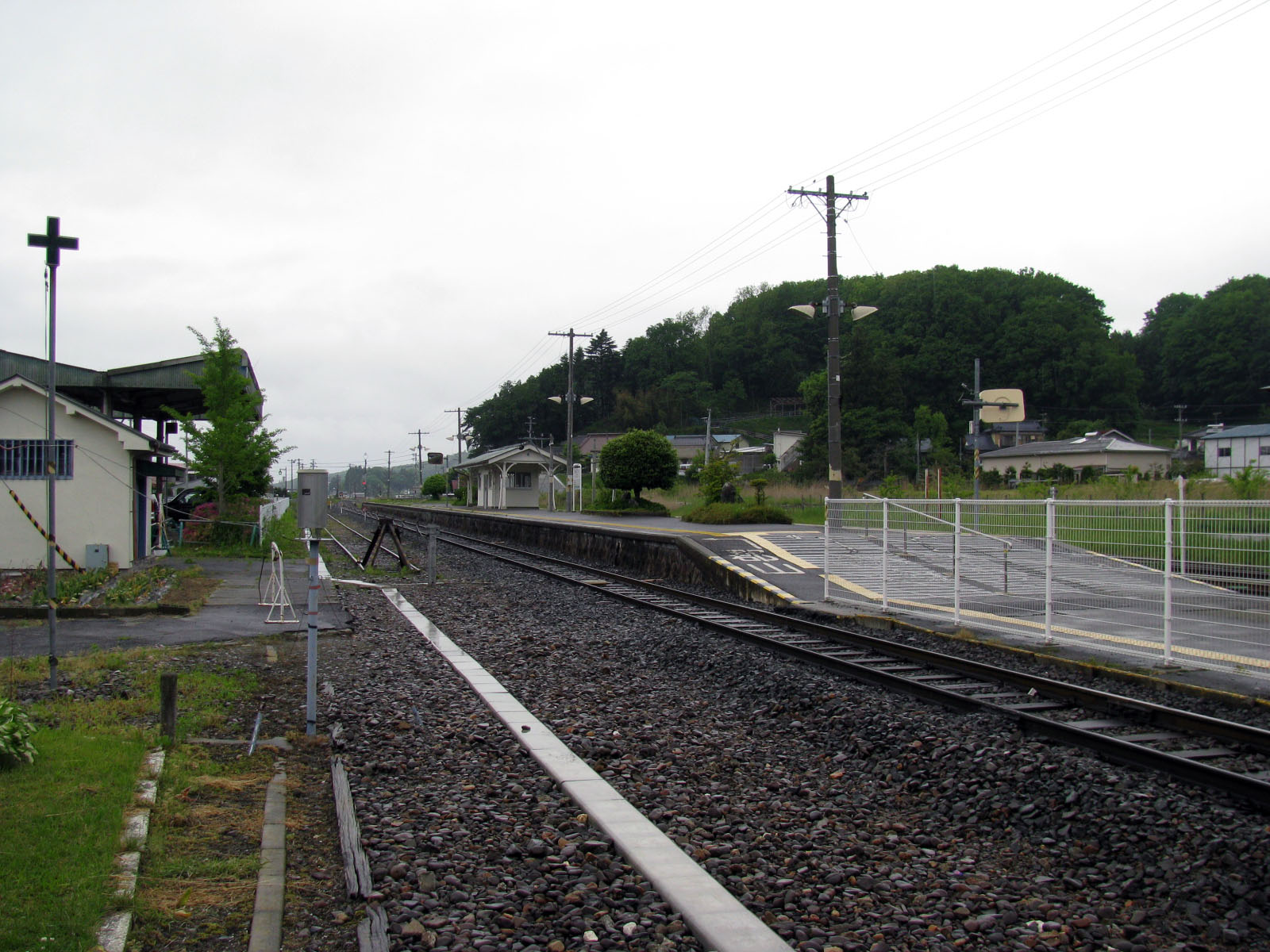 Ogoe Station on East Ban'etsu Line